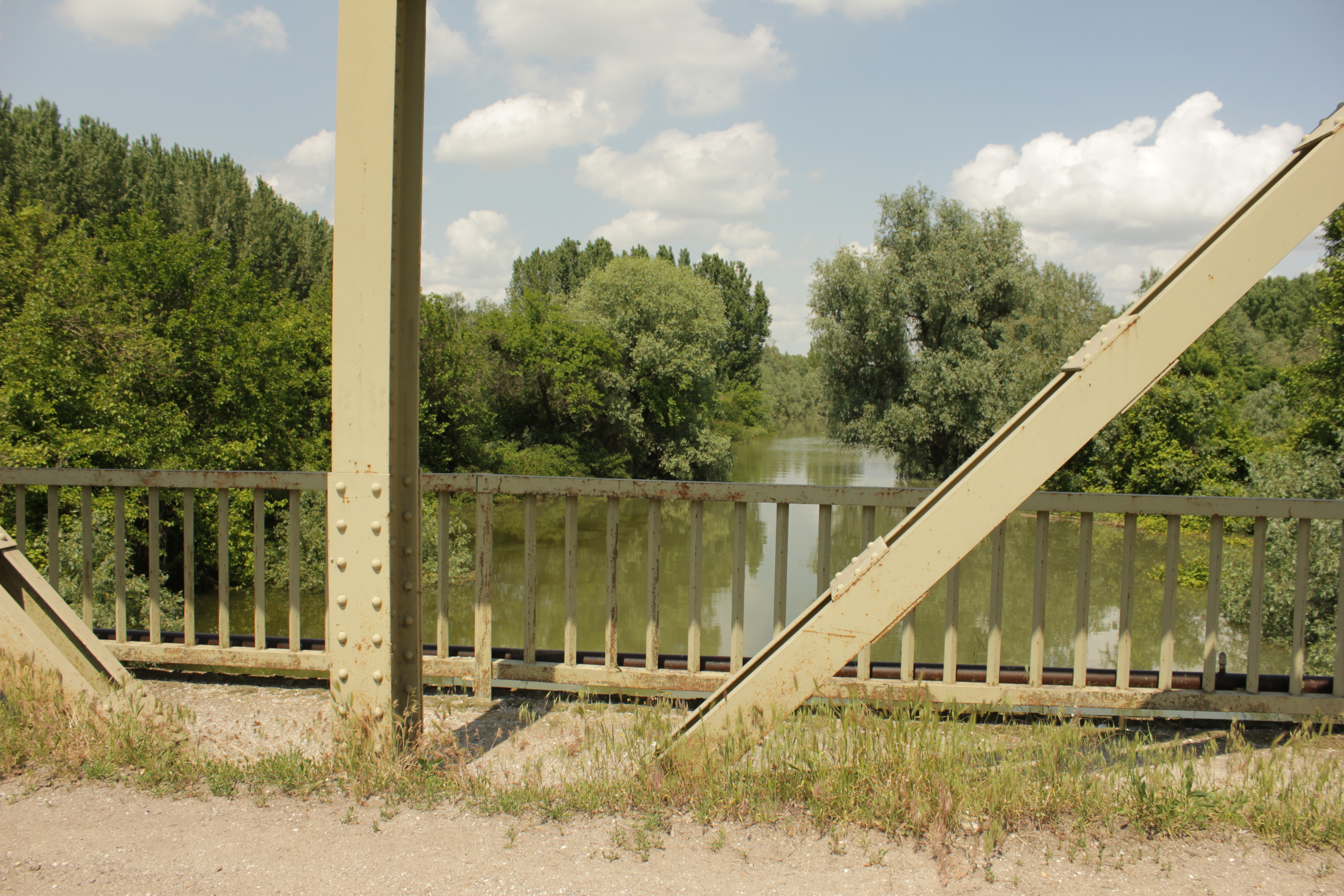 River Osam at it's joining the Danube river